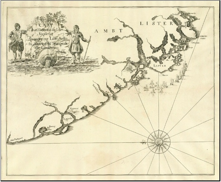 From Christian VI's journey to Norway in 1733. Map of Dahleren and Lister. Engraving